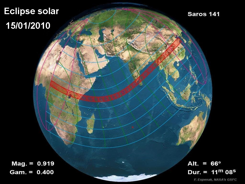 Map of the solar eclipse of January 15, 2010.